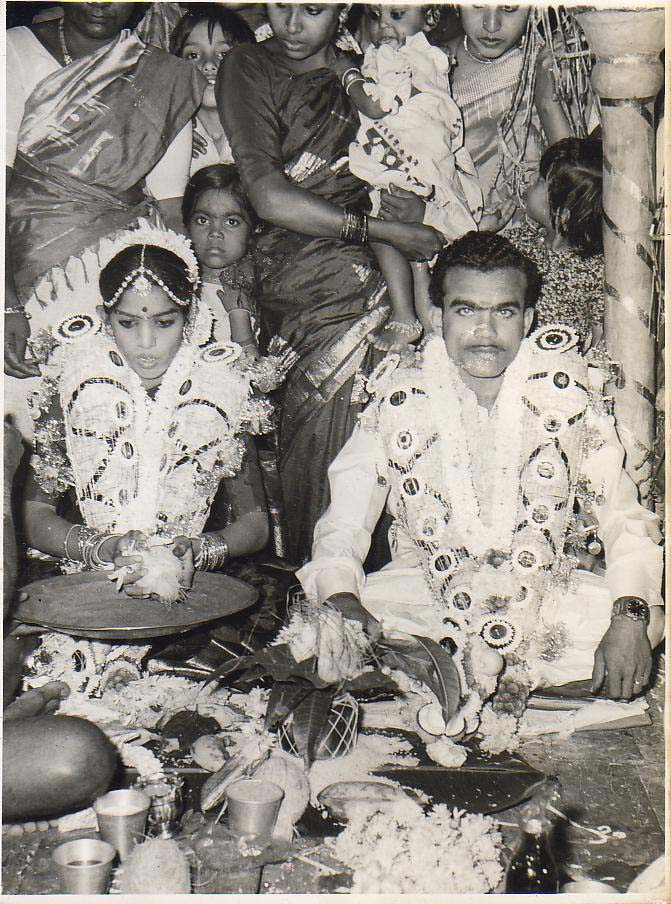 Image of a Tamil wedding ceremony.